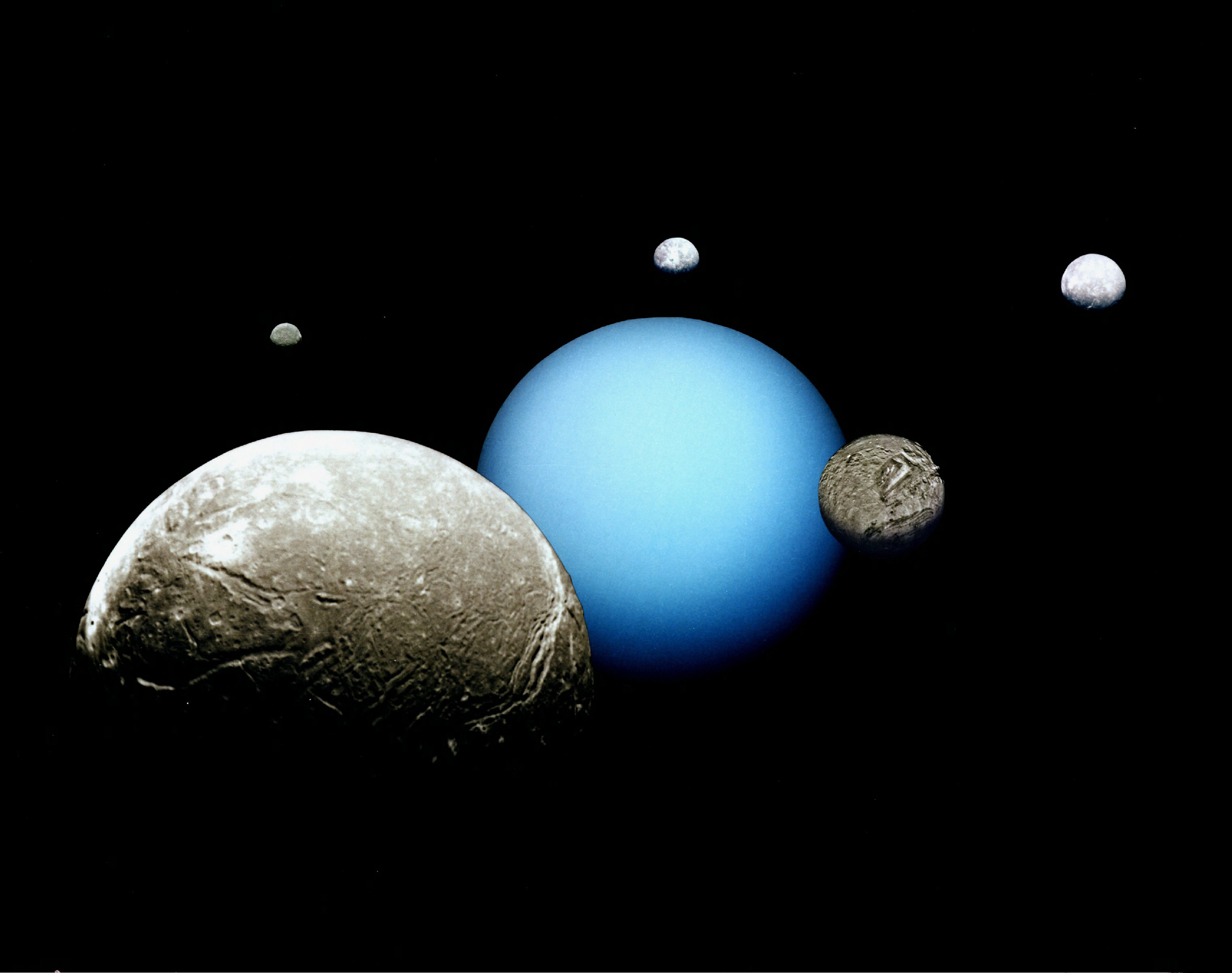 Uranus and its five major moons are depicted in this montage of images acquired by the Voyager 2 spacecraft. Uranus appears as a uniformly blue globe, similar to how the eye would naturally see it; only with computer-aided image processing do subtle bands in the planet's upper atmosphere appear. The moons, from largest to smallest as they appear here, are Ariel, Miranda, Titania, Oberon and Umbriel. Voyager 2 also discovered 10 new, smaller moons and relayed images of Uranus's ring system during the planetary encounter nearly 2 billion miles from Earth.